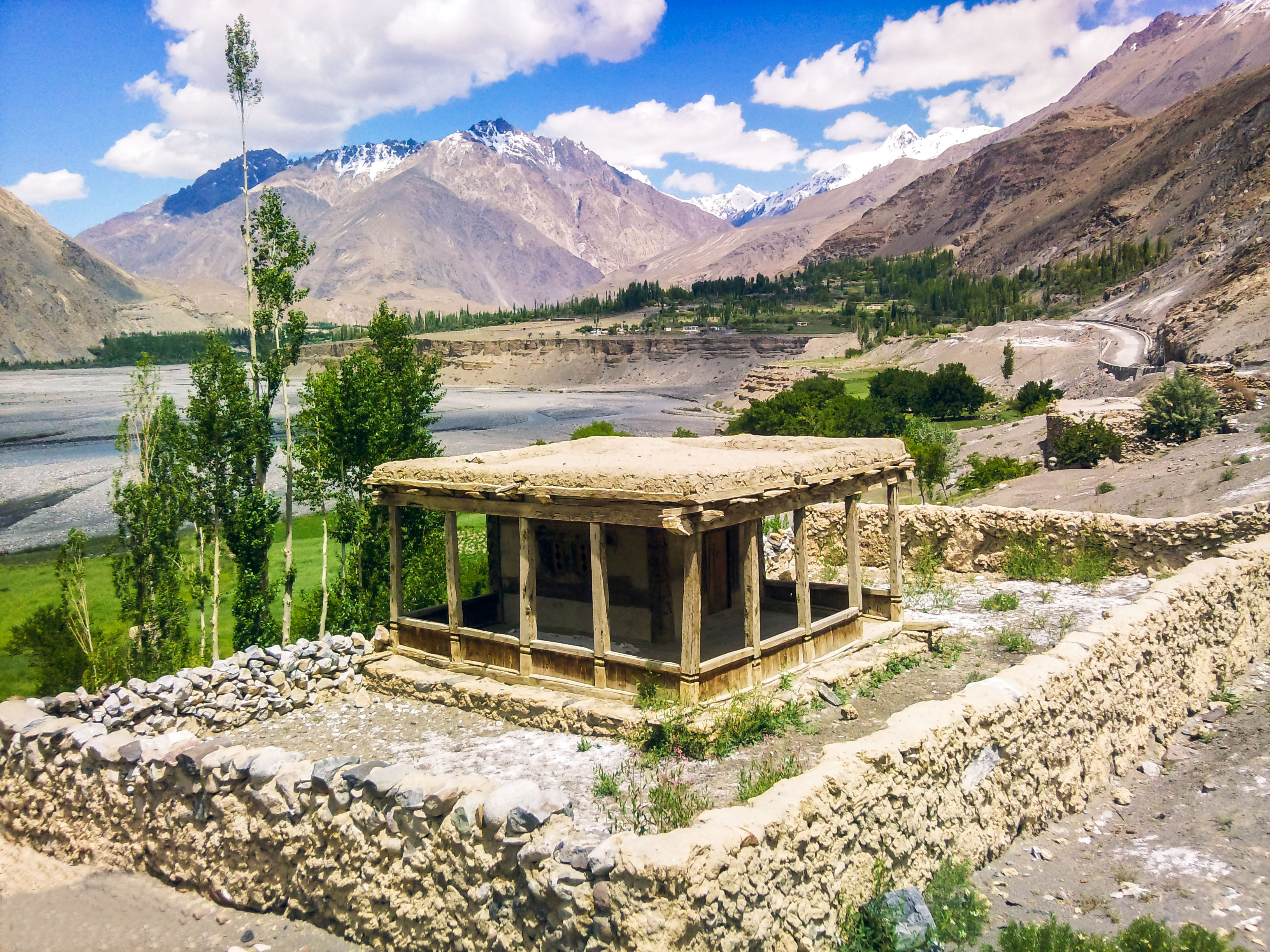 An old mosque preserved by the local community at Gircha Gojal Hunza